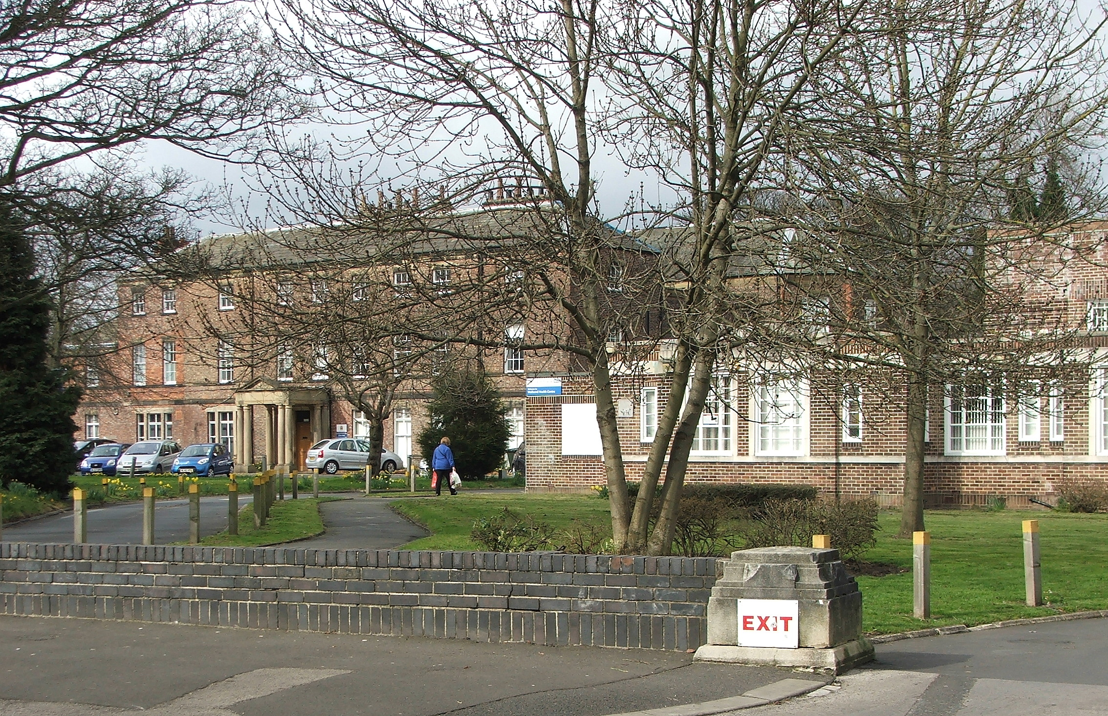 The Green